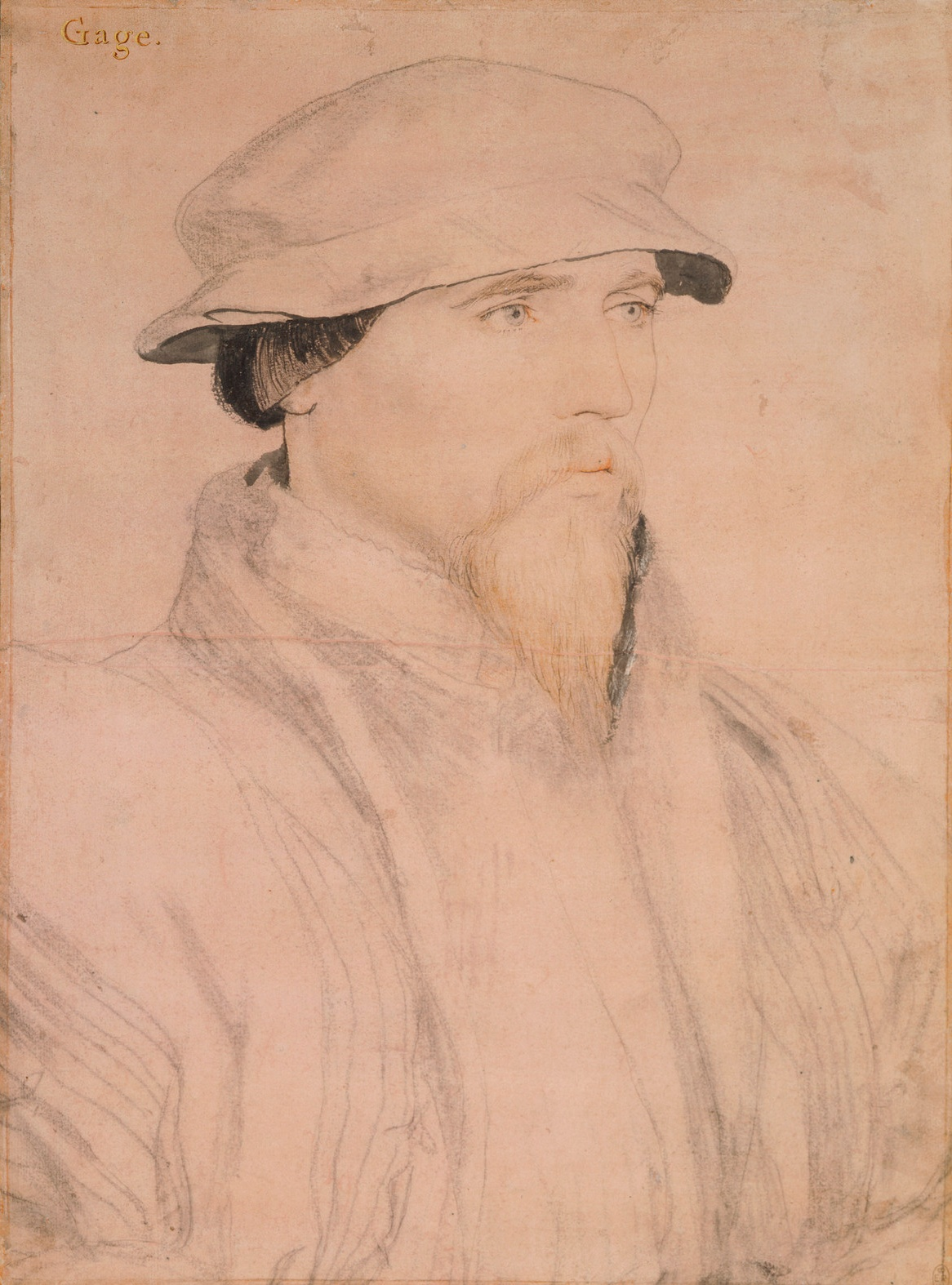 Portrait of Sir John Gage. Black and coloured chalks, reinforced with pen and brush and Indian ink and with metalpoint on pink-primed paper, 39.8 × 29.1 cm, Royal Collection, Windsor Castle. The drawing has been reworked in pen and ink and (on the gown) in metalpoint by other hands. In the words of art historian K. T. Parker: "The work in Indian ink is devoid of skill or sensitiveness, and is certainly not by Holbein. But traces of left-handed shading appear in the hat, and there can be little doubt that the drawing, in spite of its injuries, is fundamentally an original of the master" (K. T. Parker, The Drawings of Hans Holbein at Windsor Castle, Oxford: Phaidon, 1945, OCLC 822974, p. 57). Sir John Gage (1479–1556/57) was a military commander and politician under Henry VIII and Edward VI.